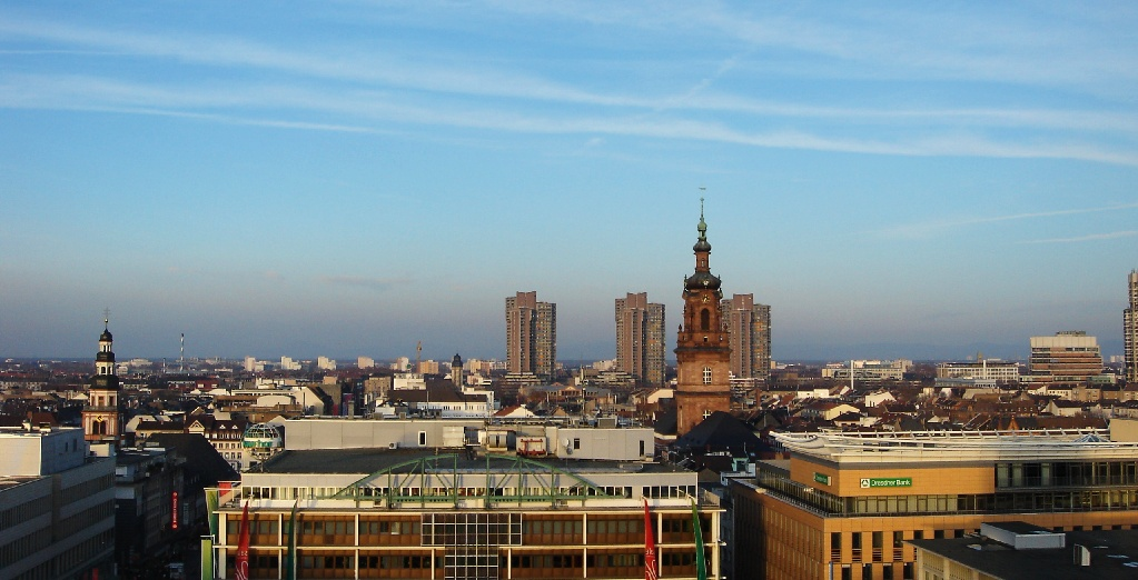 View of Mannheim's centre